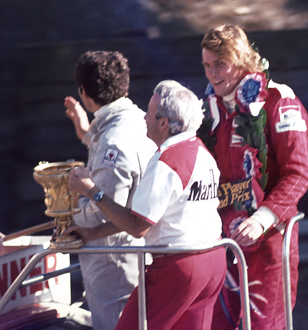 James Hunt wins John Player Grand Prix (but disqualified after the race), as McLaren Team Manager Teddy Mayer holds Cup at Brands Hatch 1976.